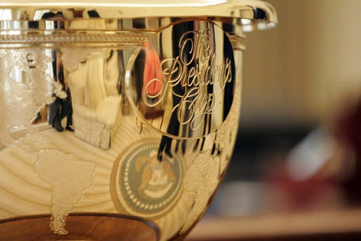 The Presidential Seal in the Oval Office carpet is reflected in the Presidents Cup golf trophy, during a visit with President George W. Bush by Cup captains Jack Nicklaus and Gary Player.